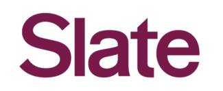 Slate logo